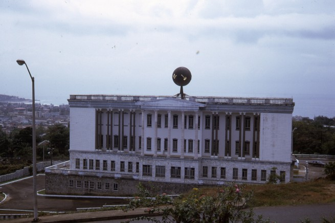 The Grand Masonic Temple in Monrovia, Liberia prior to its destruction during the Civil War